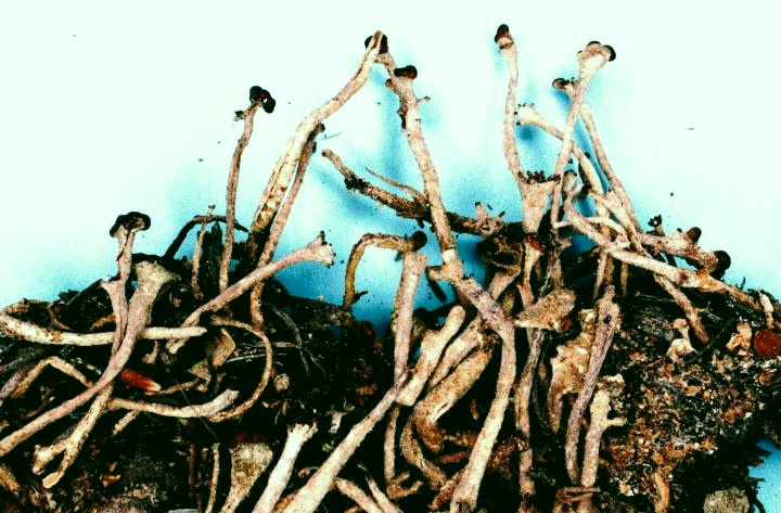 Cladonia rei Schaerer, 1823 [Synonyms: Cladonia subulata (L.) Weber ex F.H. Wigg., 1780 (see Spier & Aptroot 2007) Cladonia nemoxyna (Ach.) Arnold, 1888] (photograph of a herbarium specimen) Growing on soil of an old apple orchard at the Maryland Ornithological Society Sanctuary at Carey Run, 3.5 miles WNW of Frostburg, Garrett County, Maryland, USA; collected and identified by B. Ball and A. Norden (Cladonia nemoxyna, No. L-74, 1 Jan 1973), annotated by Allen C. Skorepa; specimen is now in the Lichen Herbarium of the New York Botanical Garden.